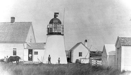 Hyannis, Massachusetts, Rear Range Light, Birdcage Lantern Room